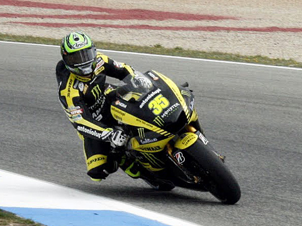 Cal Crutchlow 2011 Estoril